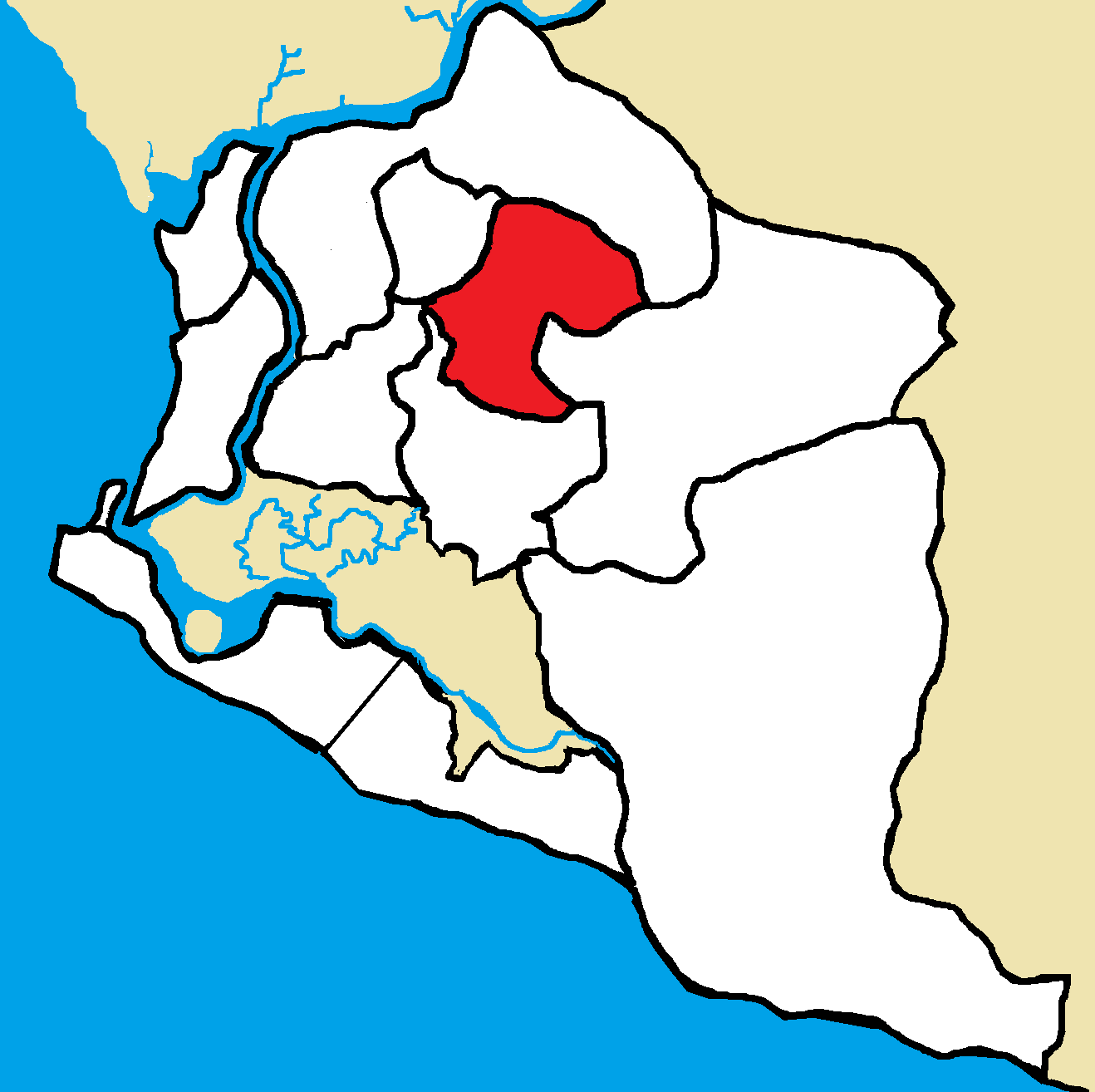 Map showing the city corporations, townships and borough of the Greater Monrovia District. Borders are approximate.